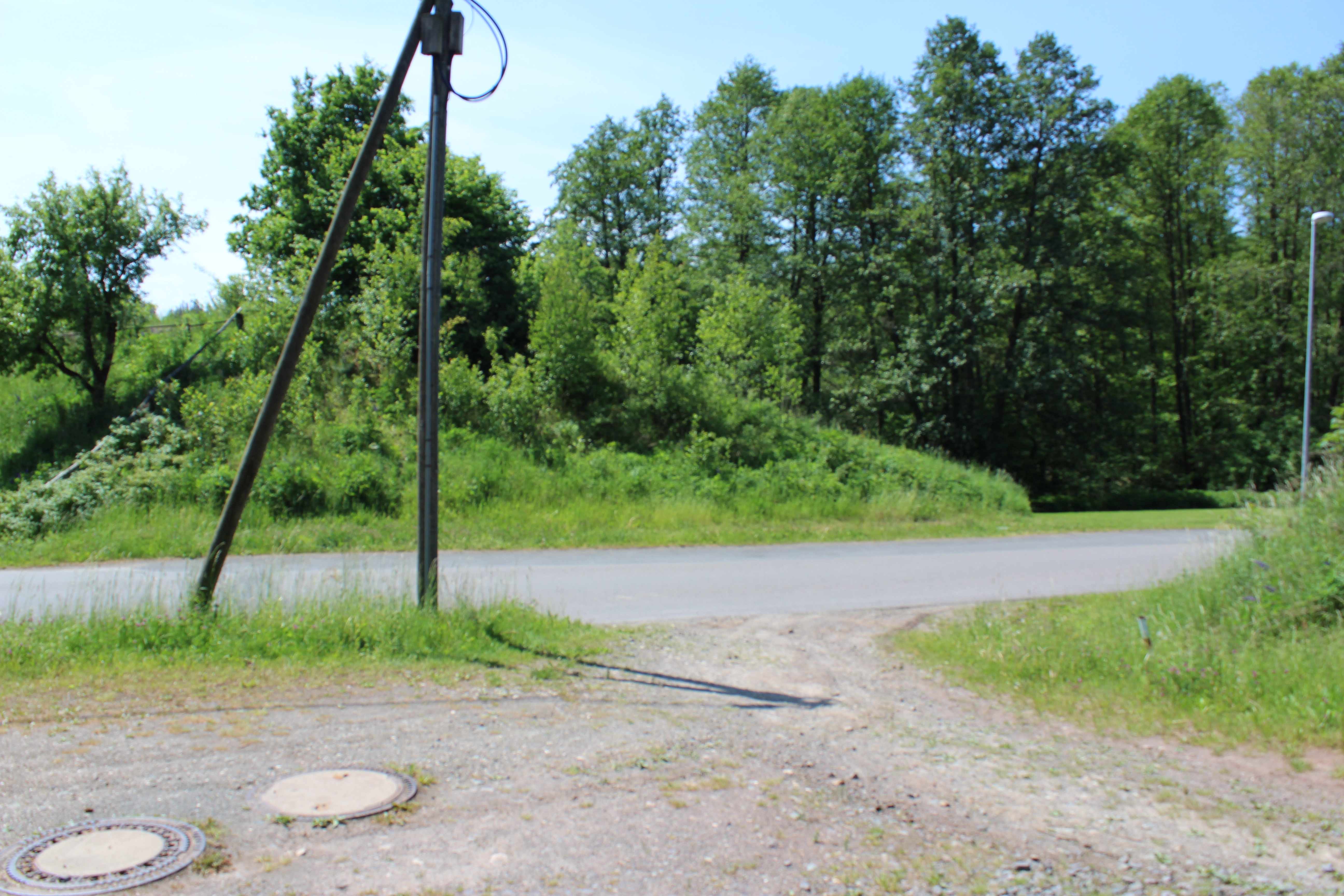 railway line Niederpöllnitz-Münchenbernsdorf, former bridge in Lederhose